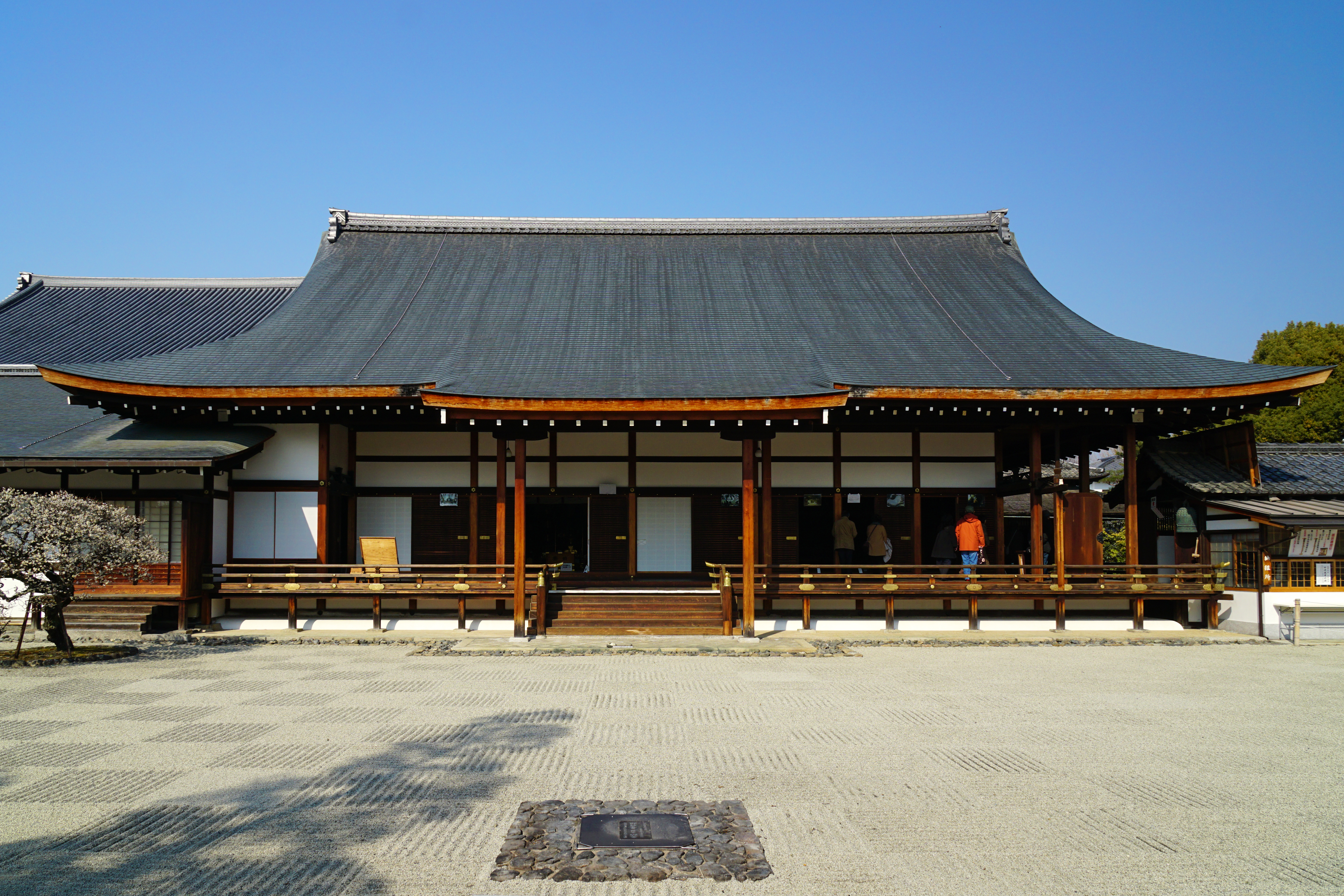 Shogoin in Kyoto, Kyoto prefecture, Japan